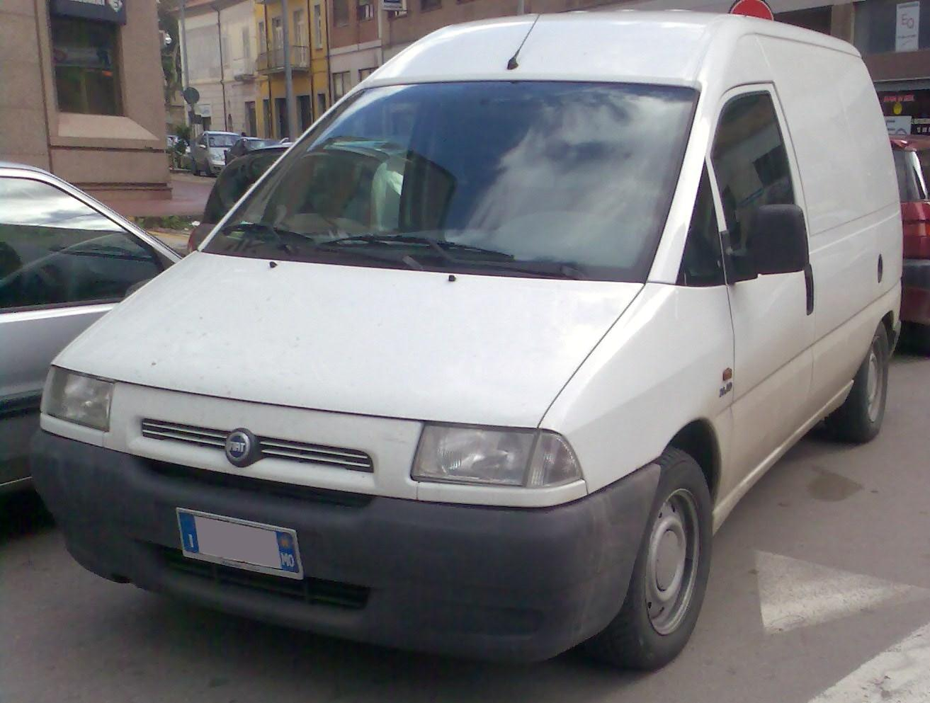 Fiat Scudo